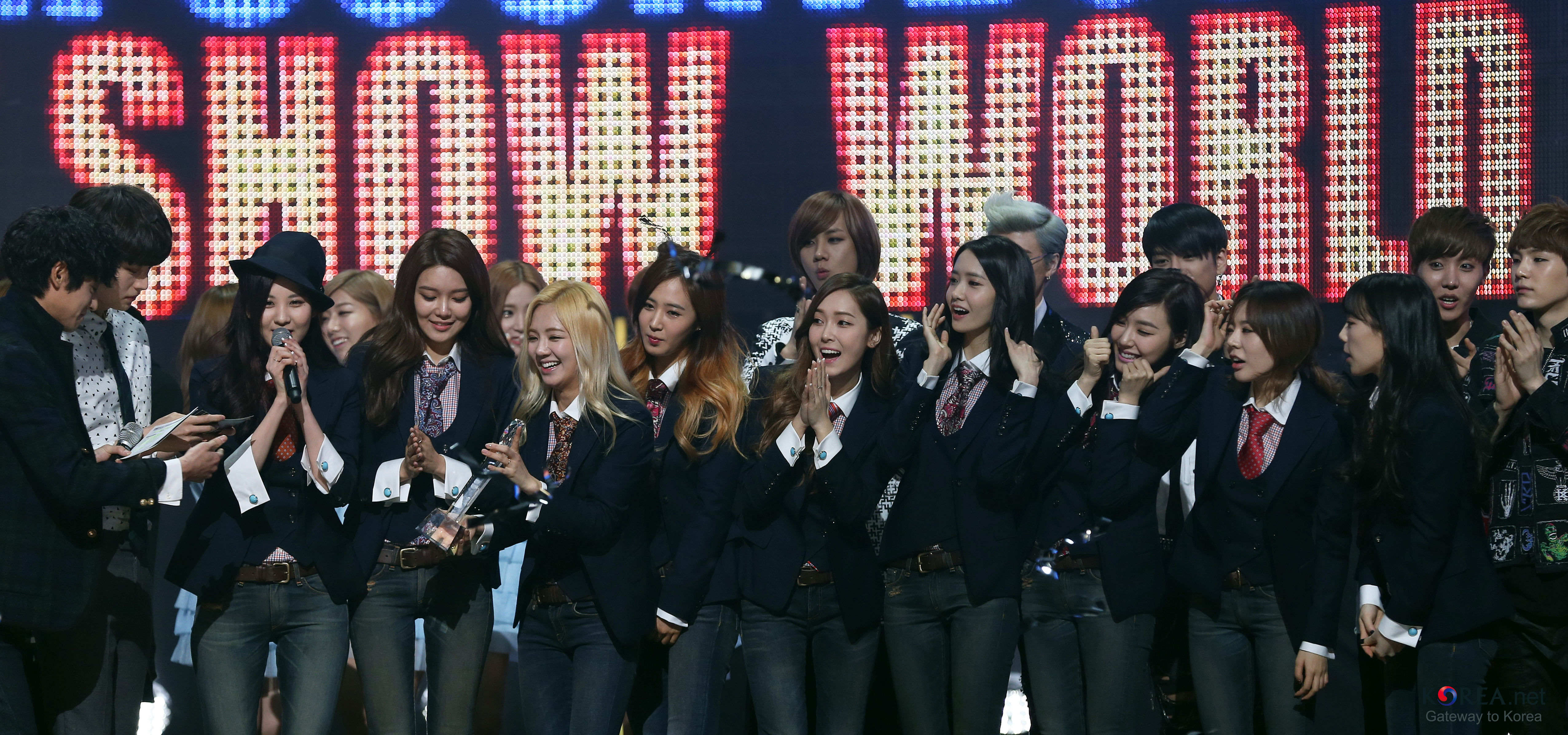 Mcountdown. Girl’s Generation Comeback Performance. CJ E&M Center, Sangam-dong, Mapo-gu, Seoul